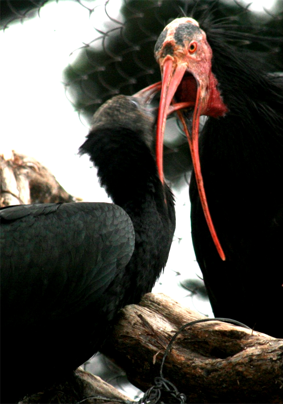 Nothern Bald Ibis (also know as the Waldrapp Ibis). An adult feeding a chick at San Francisco Zoo, USA.